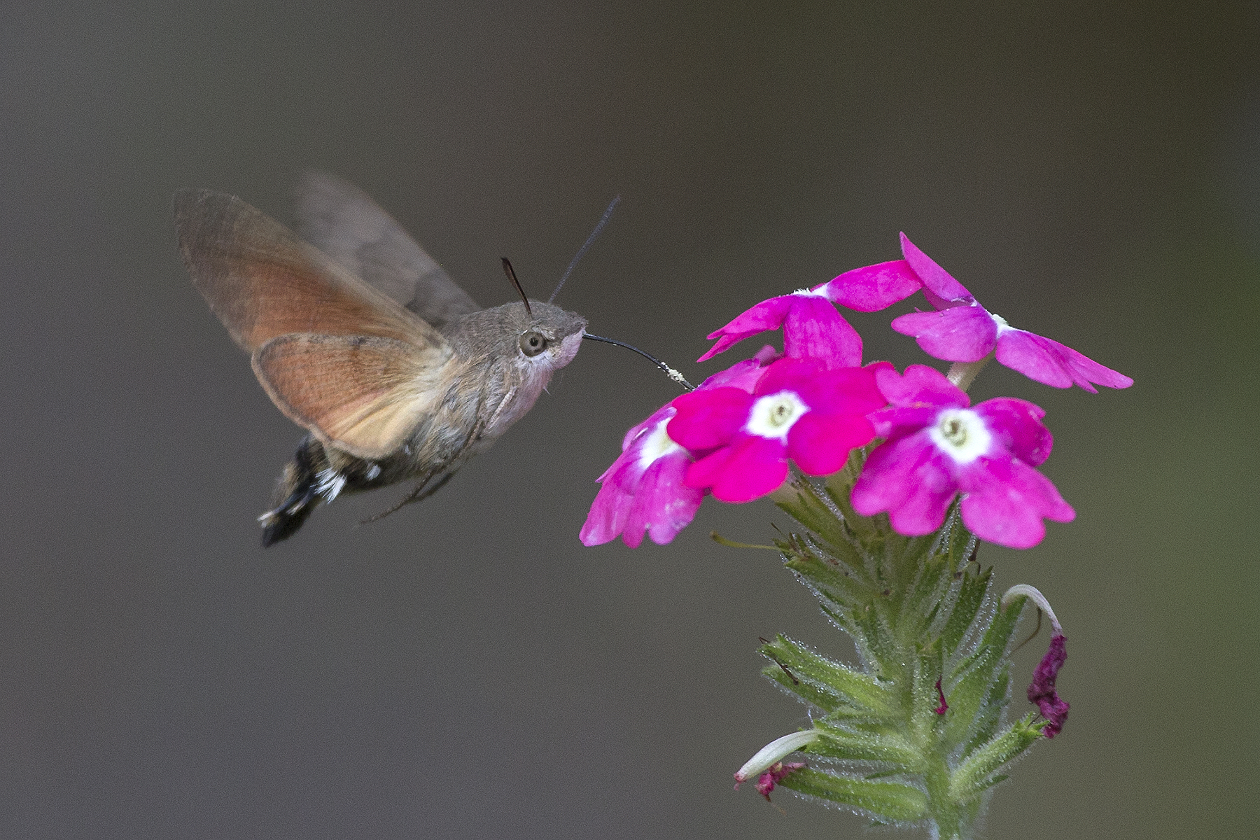 Hummingbird Hawkmoth (Macroglossum stellatarum) and verbena flowers, Łódź, Poland.